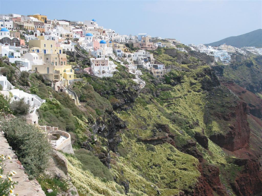 Oia on the caldera with flower carpet, archipelago of Santorini, Greece.